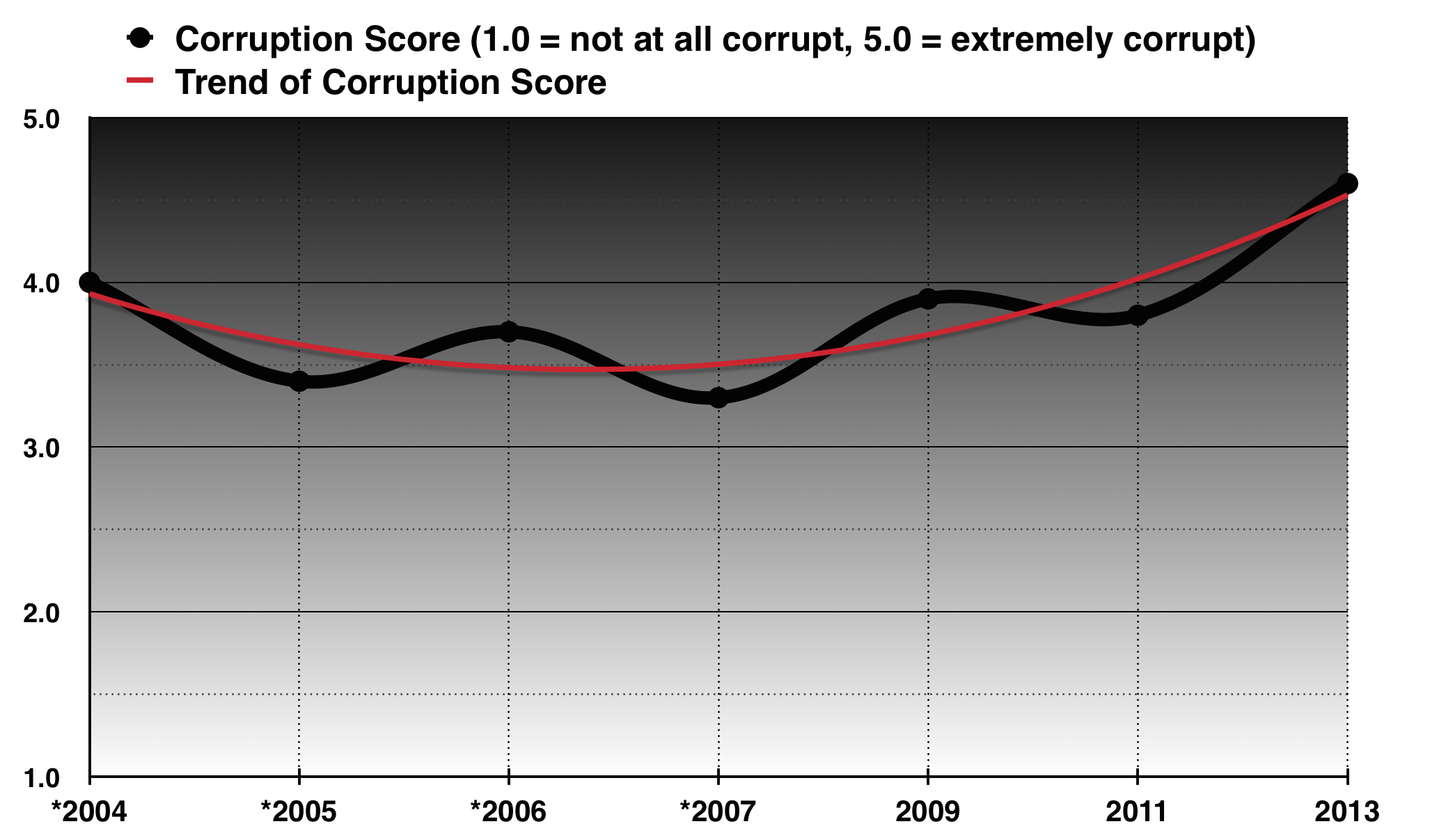 Venezuela's Corruption Score (2004-2013) Data: Transparency International